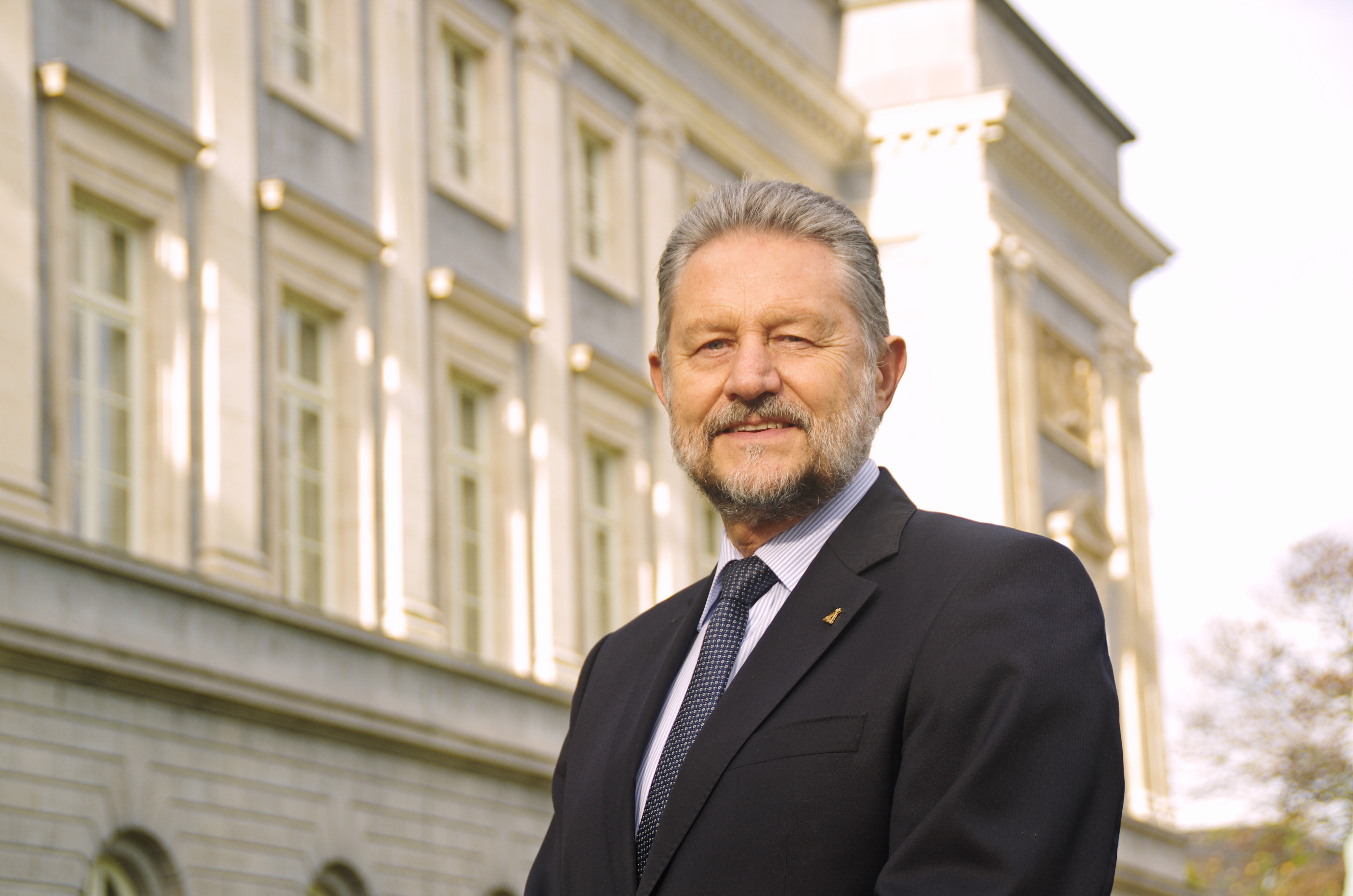 Prof. Freddy Dumortier, portraited in front of the Palace of the Academies in Brussels in 2015, the first year of his mandate as permanent secretary of the Royal Flemish Academy of Belgium for Science and the Arts